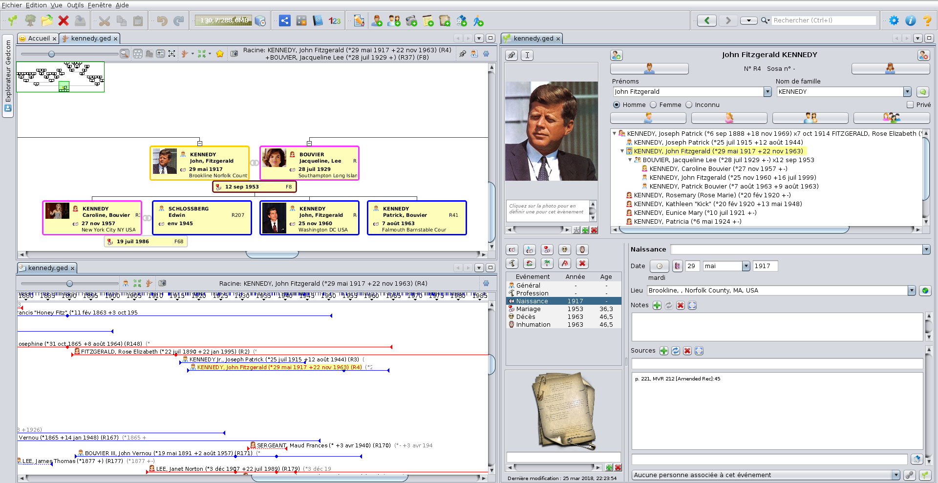 Capture of the Ancestris software main window